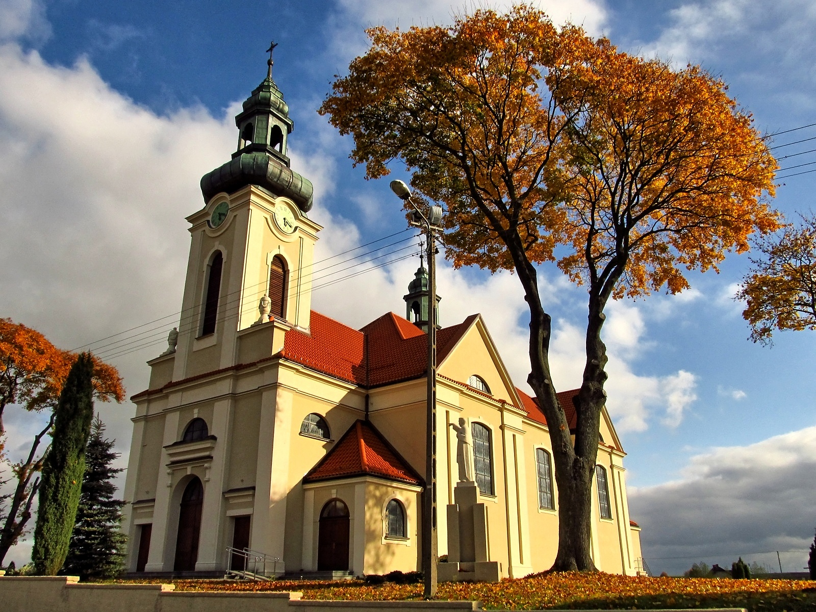 South facade of the church